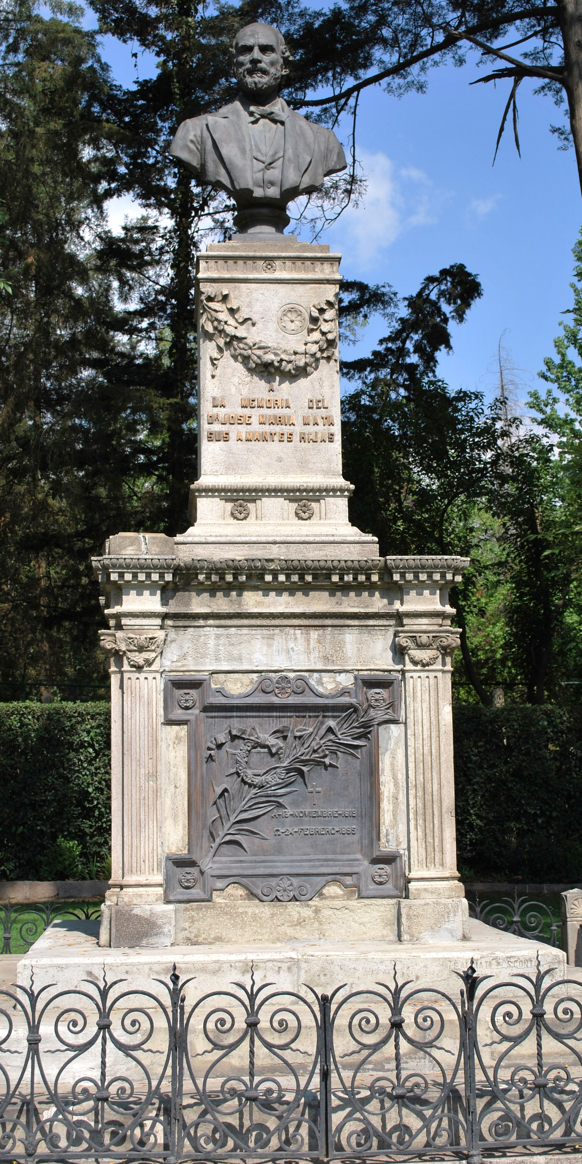 Tomb of Dr Jose Maria Mata in the Panteon Civil de Dolores cemetery in Mexico City.